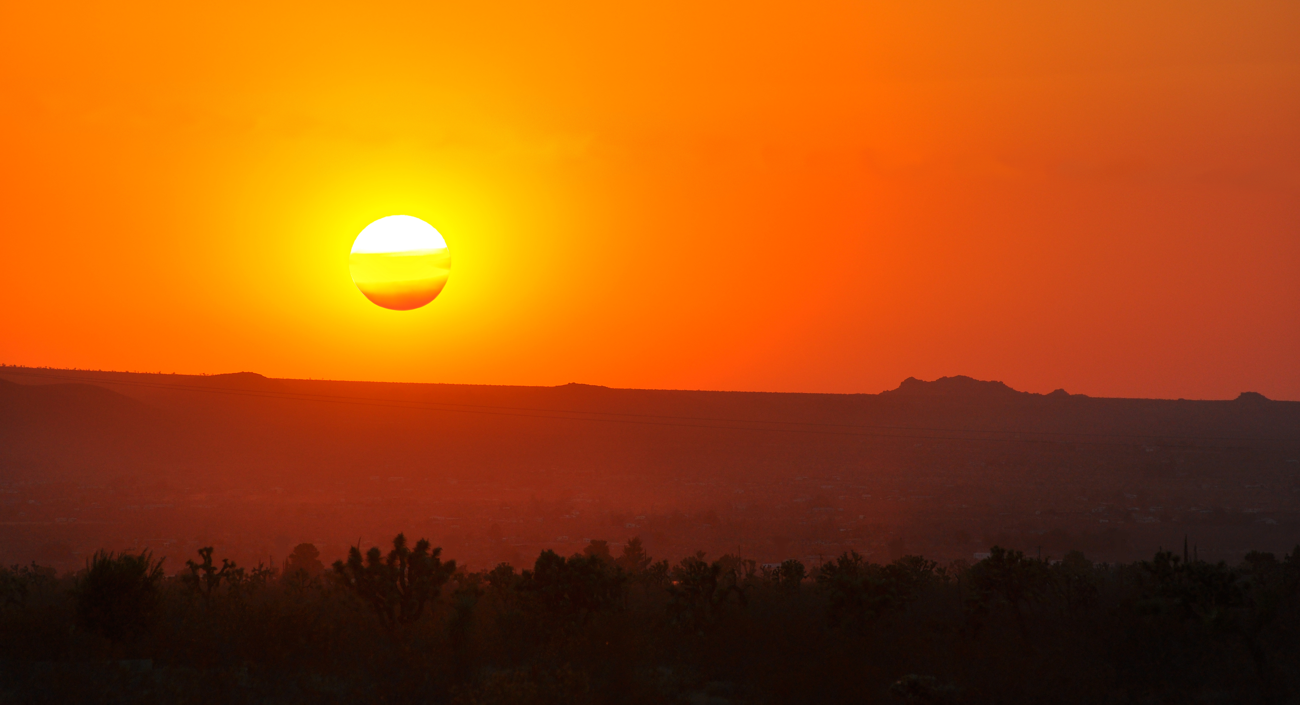 The Sun passing through layers of smoke as it sets, due to fires in California in the summer of 2016.